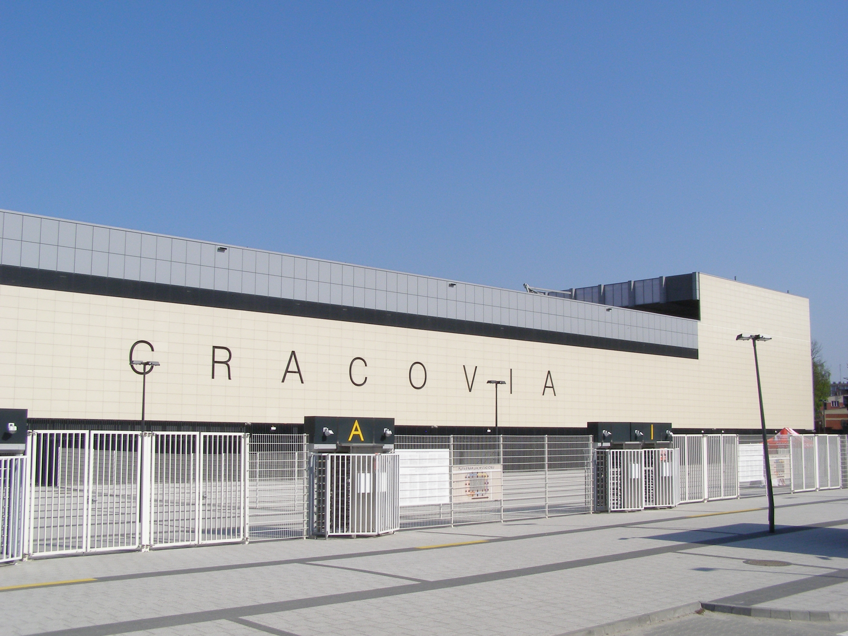 Kraków - stadium of Cracovia football club